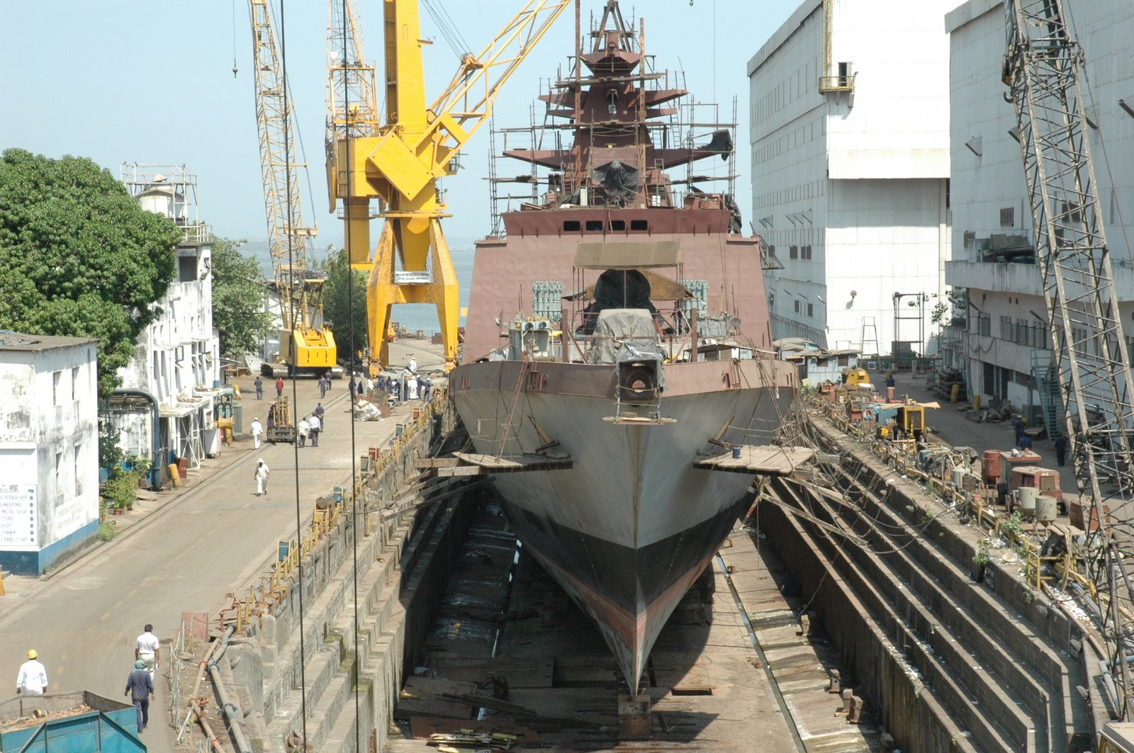 Front view of the INS Sahyadri, the third Project 17 stealth frigate of the Indian Navy, being fitted out at Mazagon Docks Ltd, Mumbai.